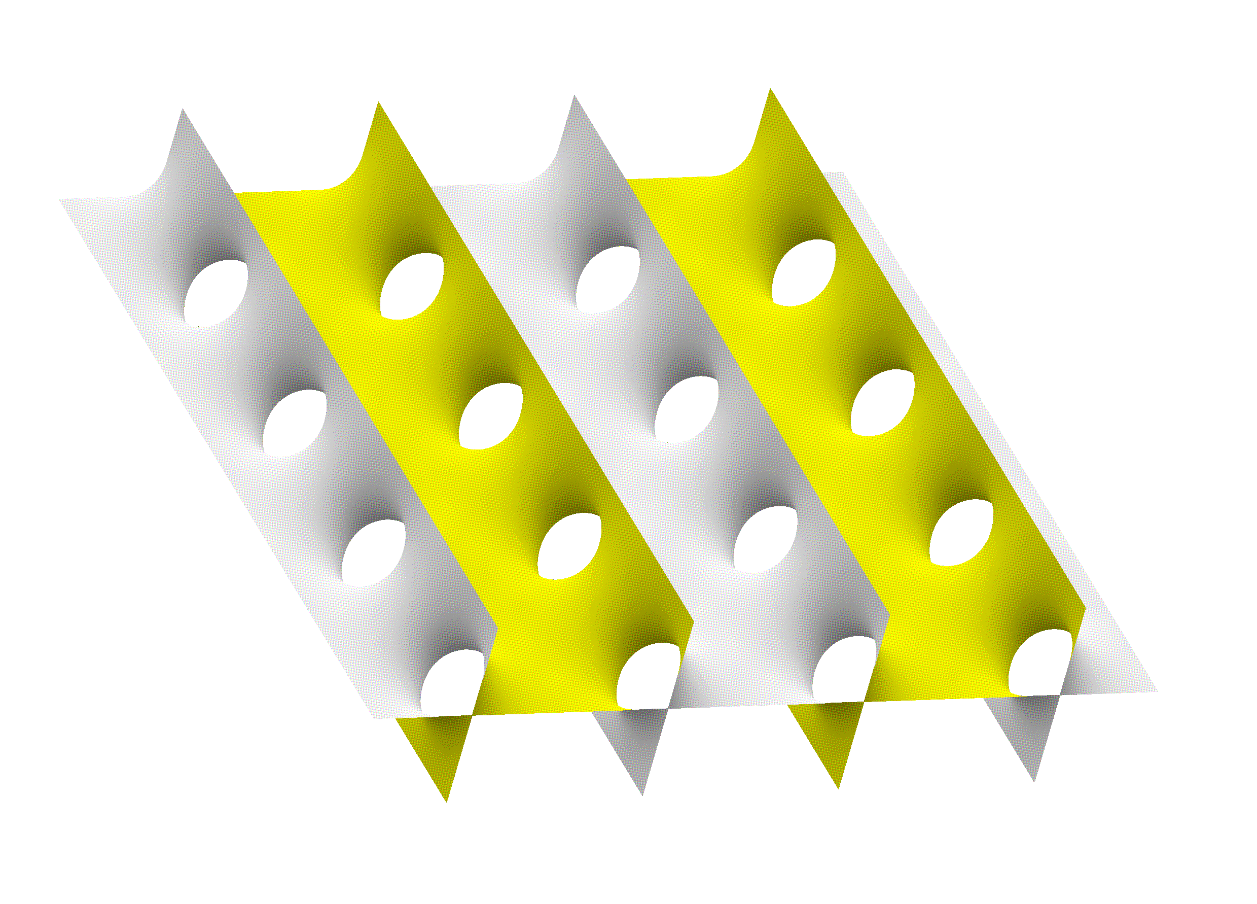 Approximation of the Schwarz CLP minimal surface generated using Ken Brakke's Surface Evolver program.